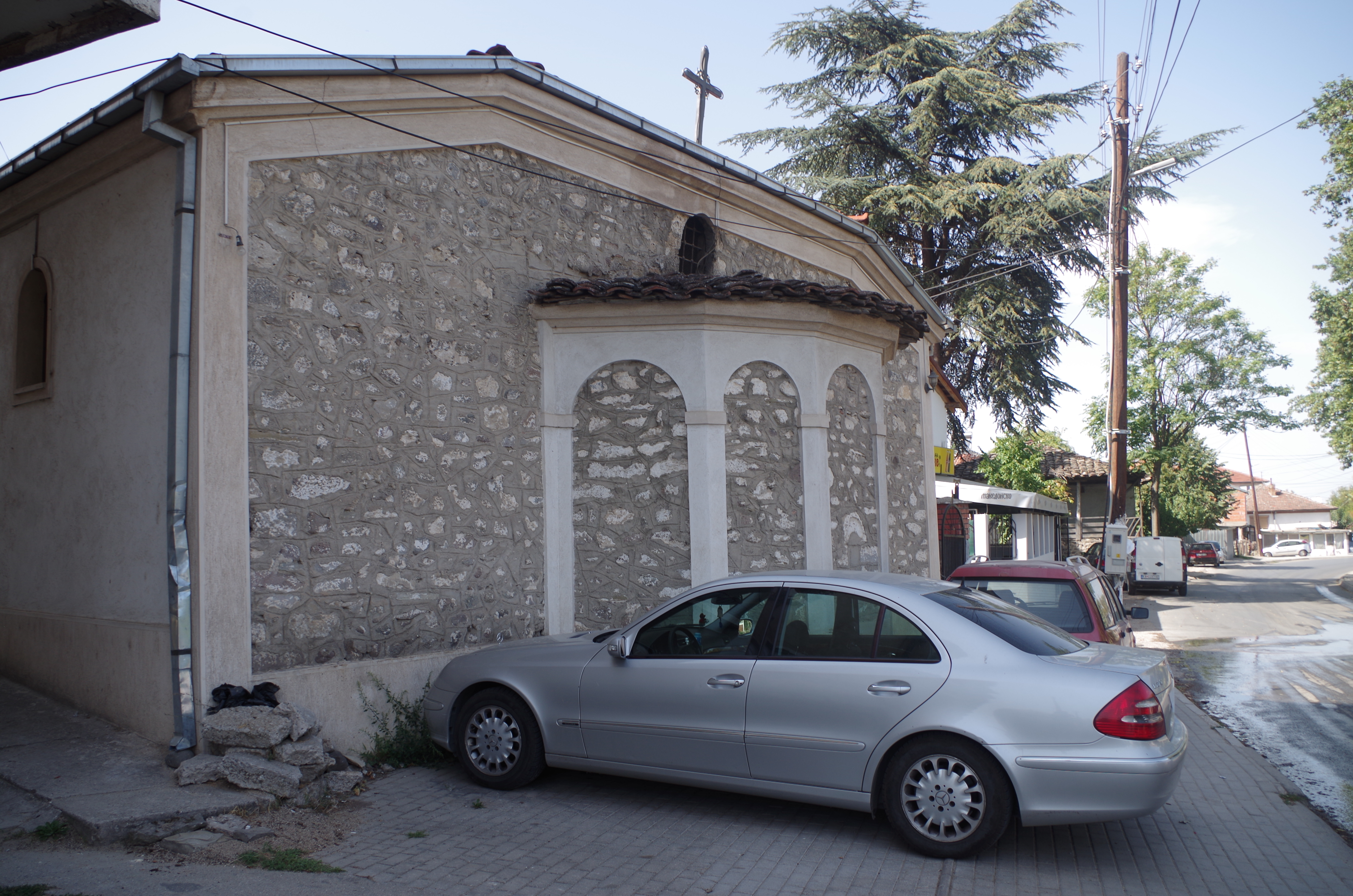 The apse of Dormition of the Theotokos Church in the village of Vataša